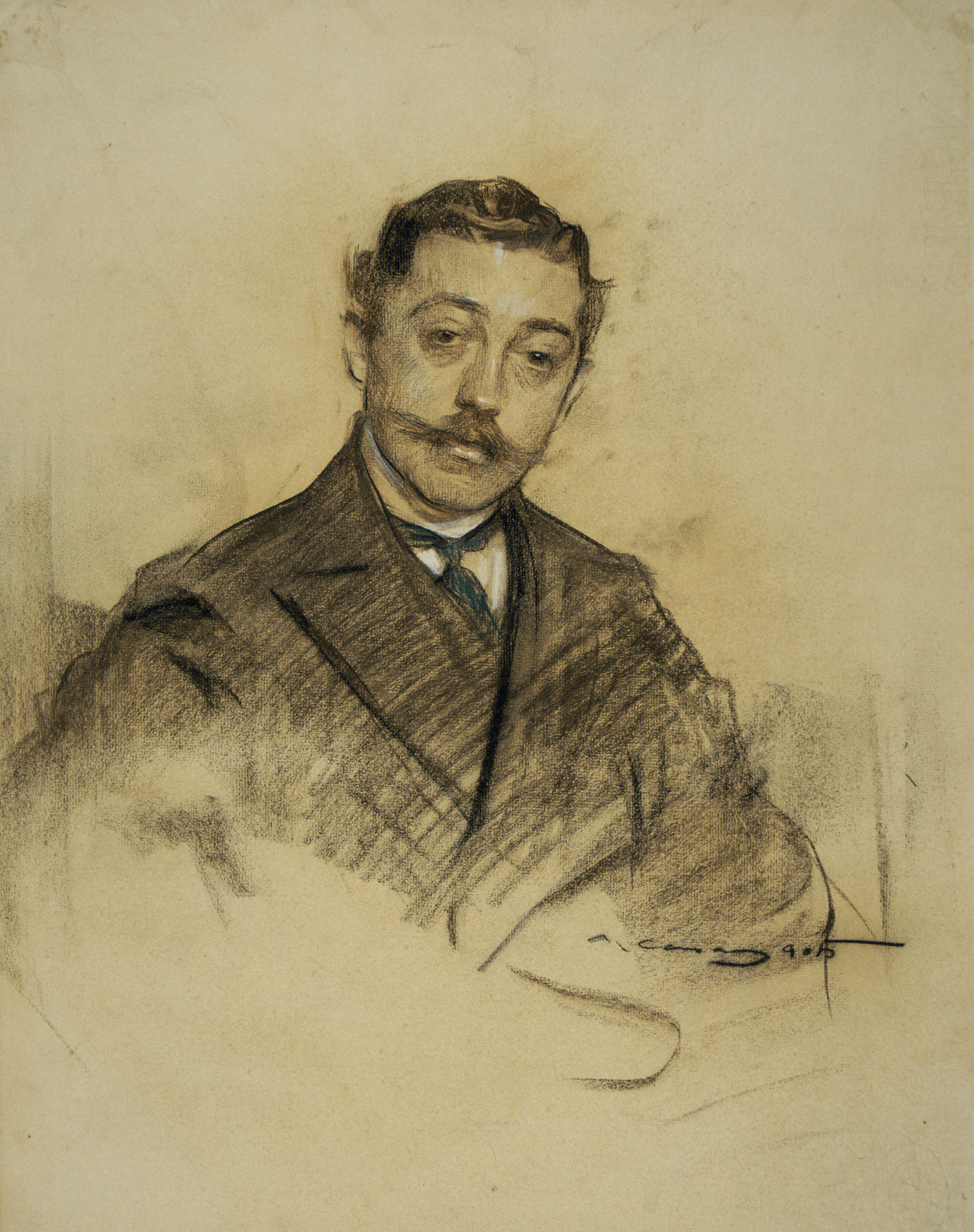 Portrait by Ramon Casas conserved at MNAC in Barcelona.